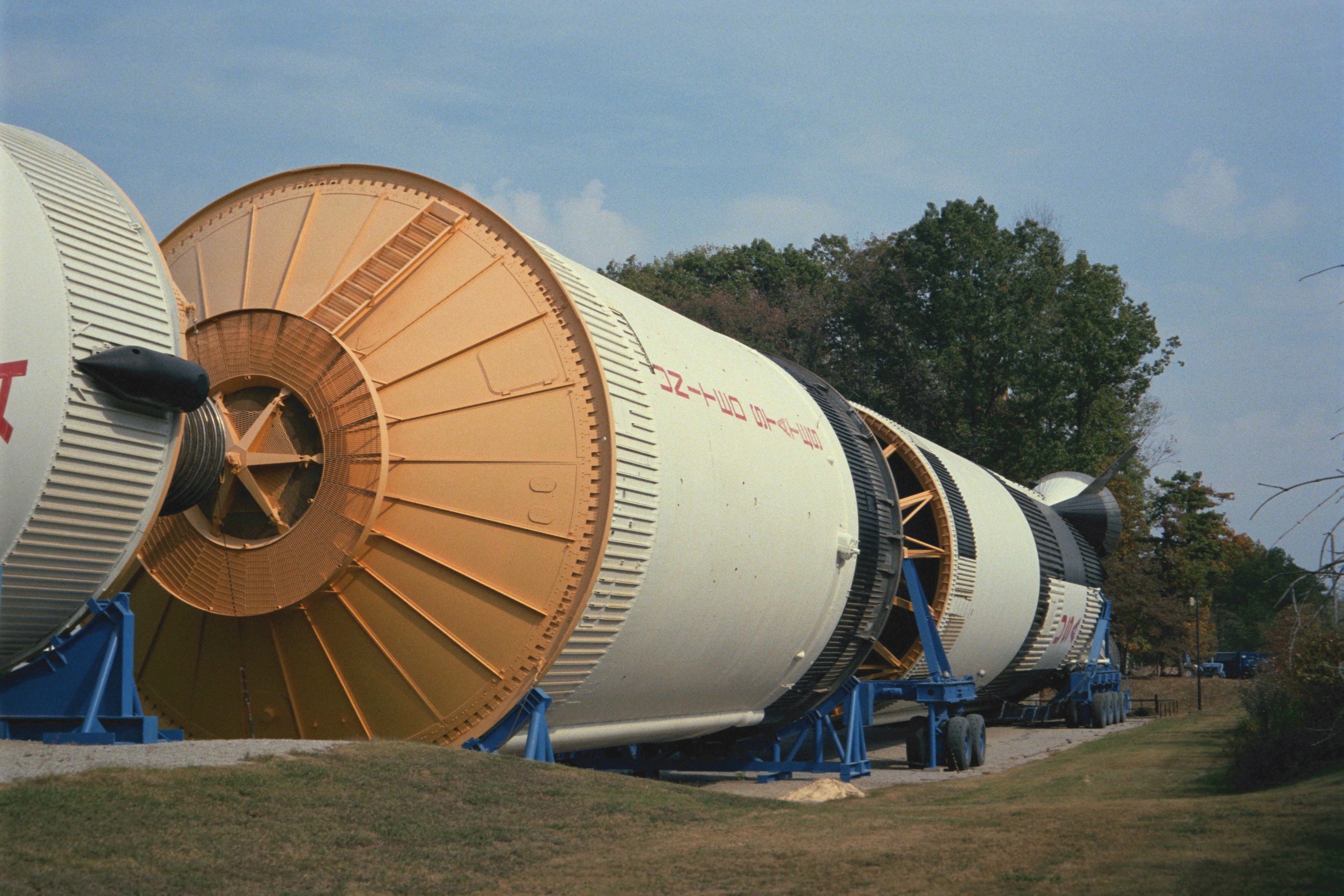 A Saturn V rocket on display at the U.S. Space And Rocket Center in Huntsville, Alabama.